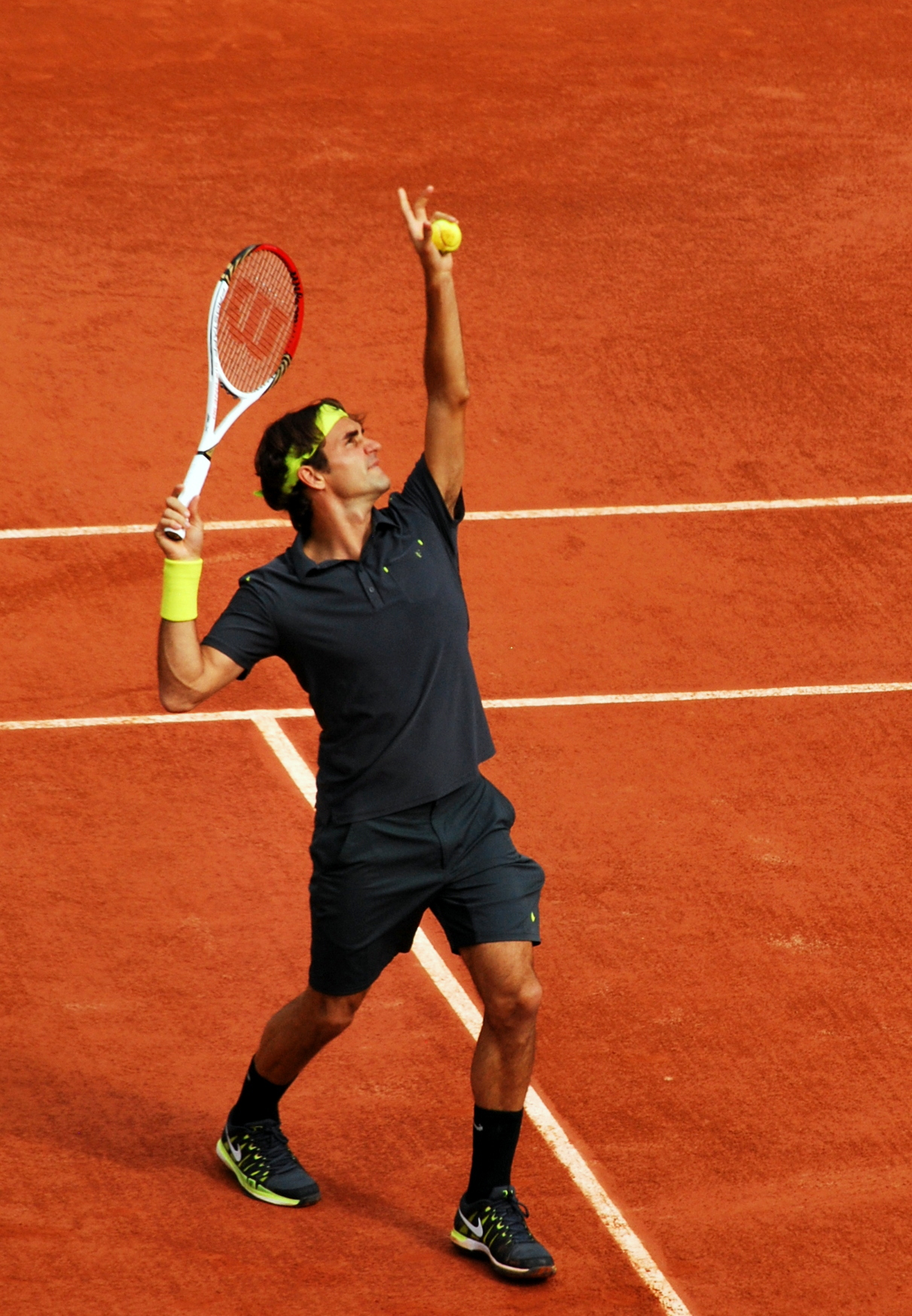 Roger Federer during his 3rd round match with Nicolas Mahut at Roland Garros. Federer won 6-3, 4-6, 6-2, 7-5. Day 6 of Roland Garros 2012.